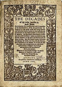 Title page of Richard Eden's Decades of the New World (1555)